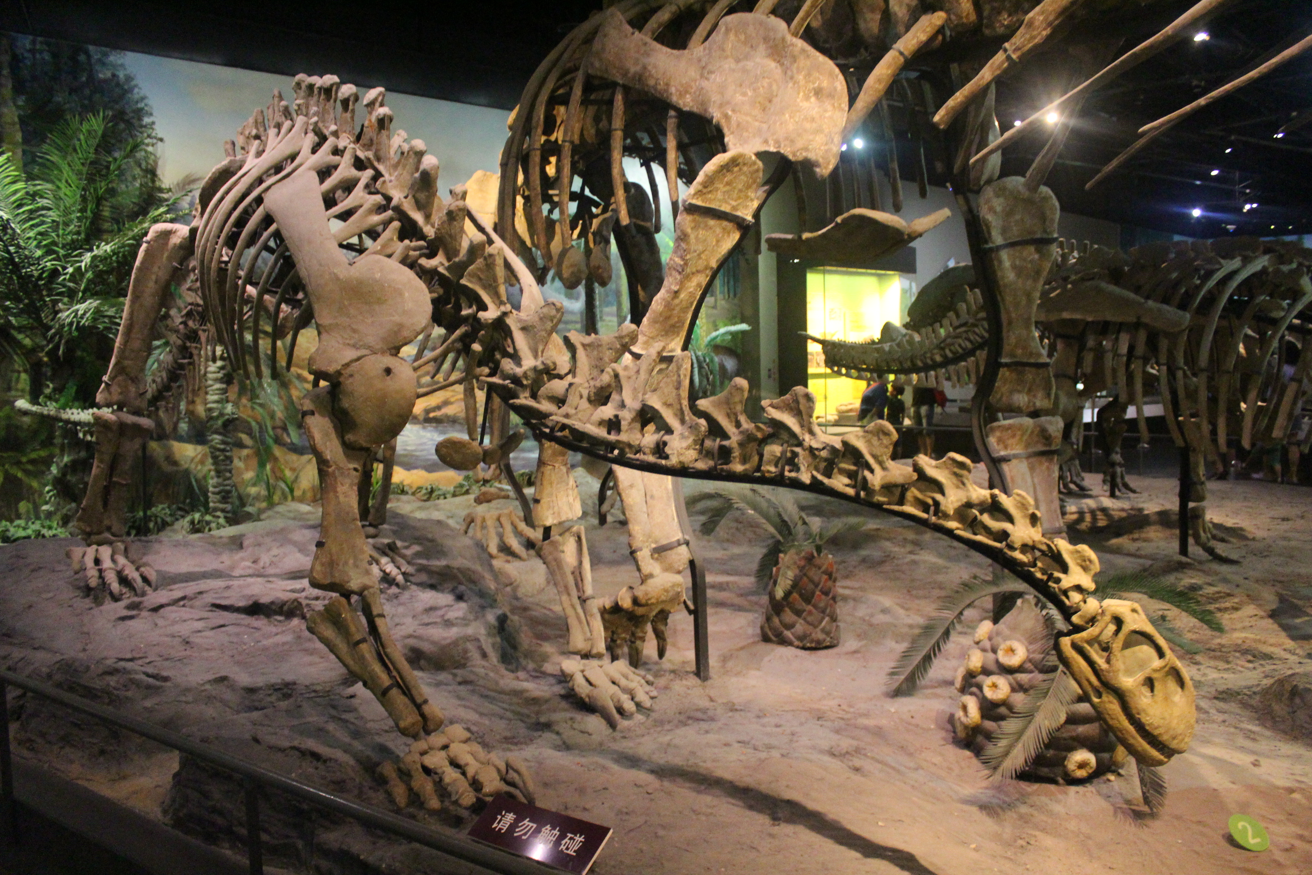 Skeletal cast mount of Shunosaurus lii on display at the Tianjin Natural History Museum.